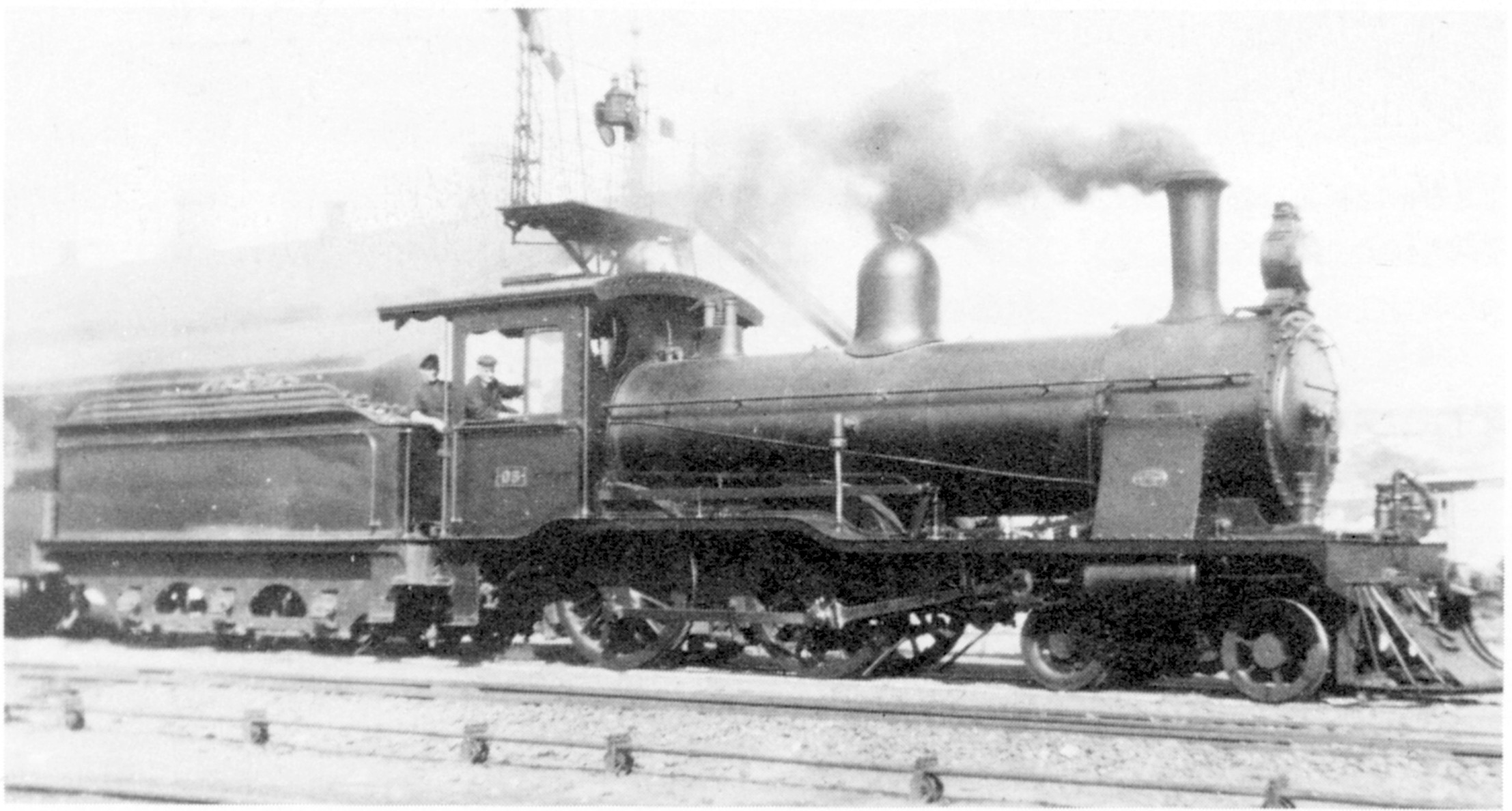 Cape Government Railways 3rd Class 4-4-0 of 1901 no. 9 (Wynberg tender)